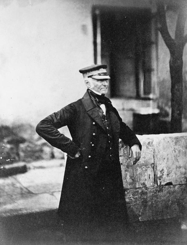 Crimean War 1854-56 General Sir James Simpson, GCB, who served in tne Crimea as Chief of the Staff, and on the death of Lord Raglan as Commander in Chief until the fall of Sevastopol, when he returned home suffering from ill health.